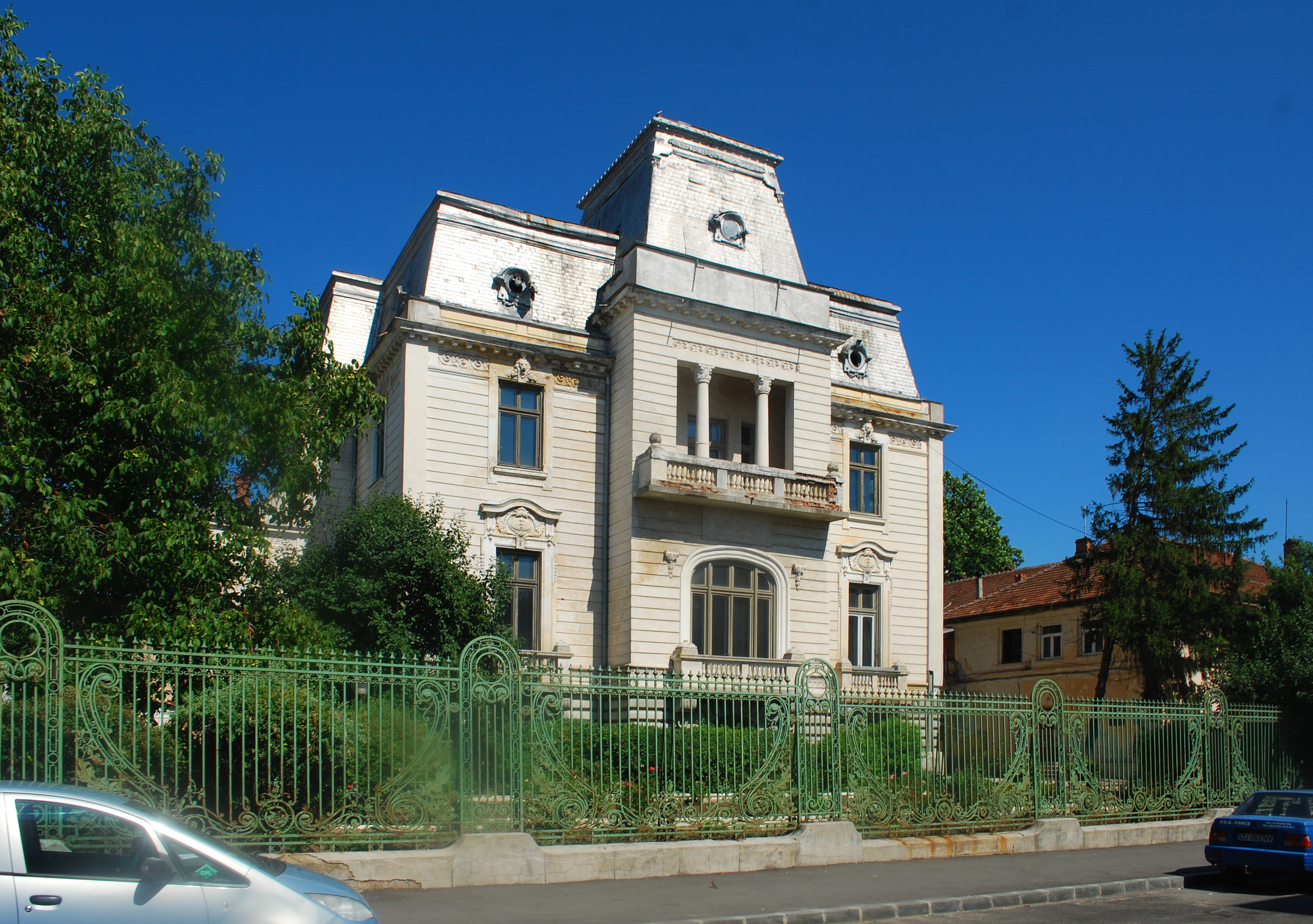 Puiu Pleșia house in 21 Frații Buzești street Craiova, Romania